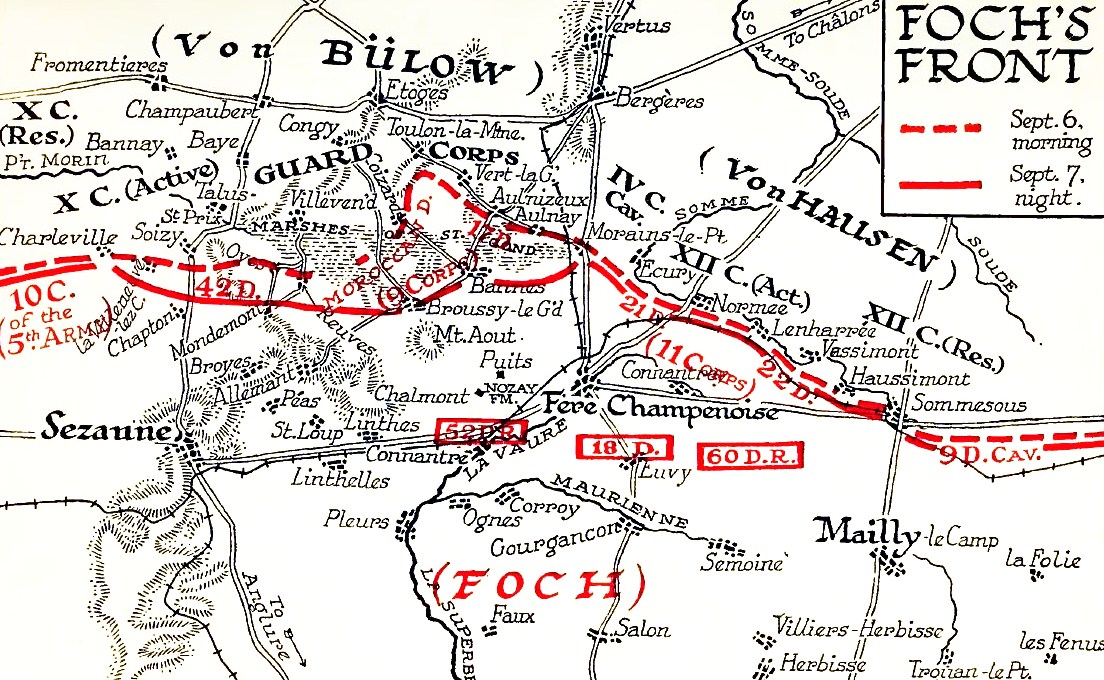 Marne, 6-7 September 1914